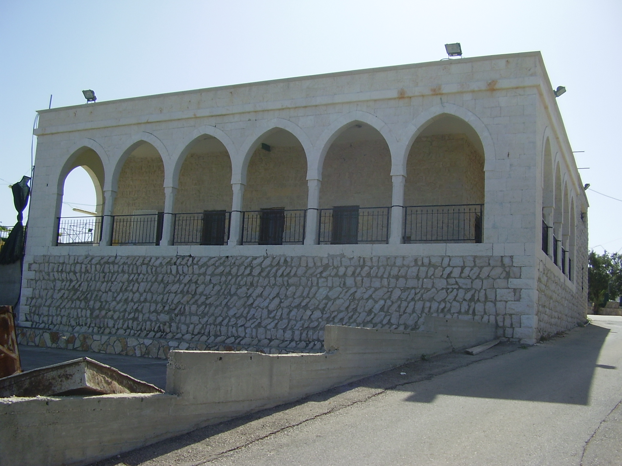 hilwah el rorab in yarka